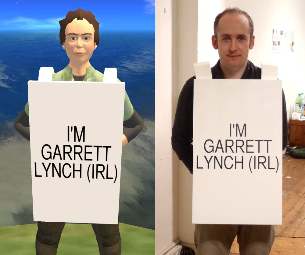 A portrait of Garrett Lynch performing with the sandwich board originally worn by the artists "representation" in Second Life at the exhibition Being in 2011.